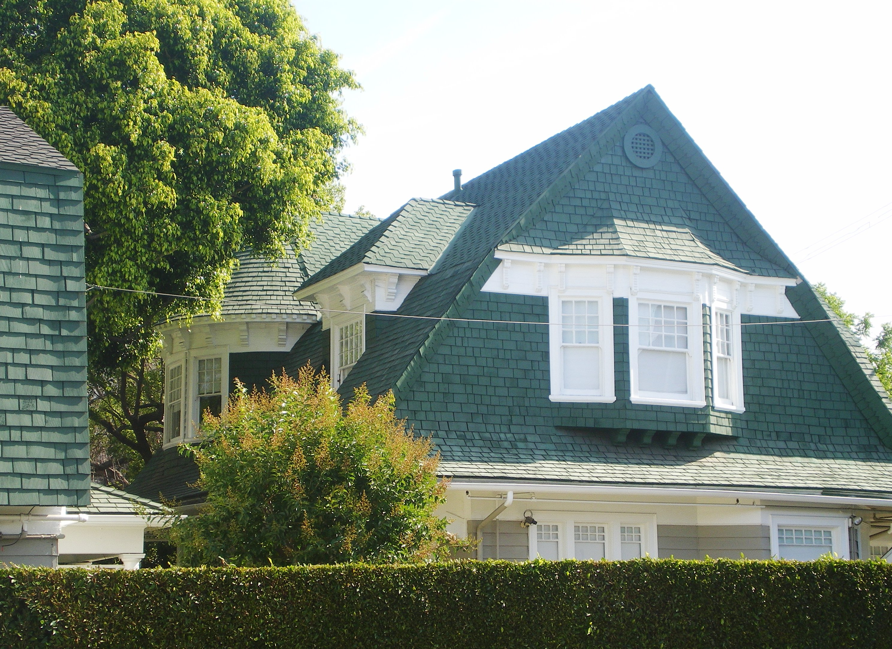 Whitley Court, 1720-1728 1/2 Whitley Ave., Hollywood, Los Angeles, California